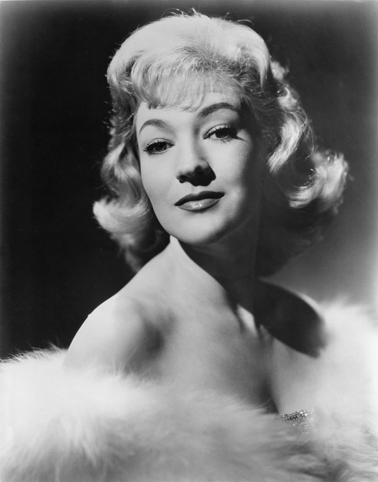 Actress Marietta Marich in 1963 photo